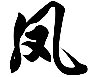 Feng (phoenix), Chinese character